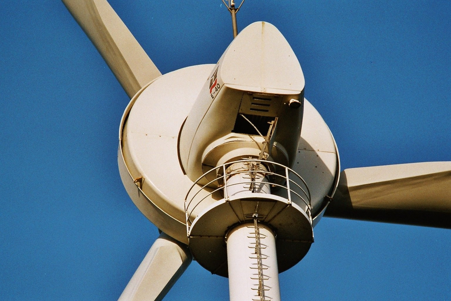 Enercon E-40 500kW with the old nacelle design